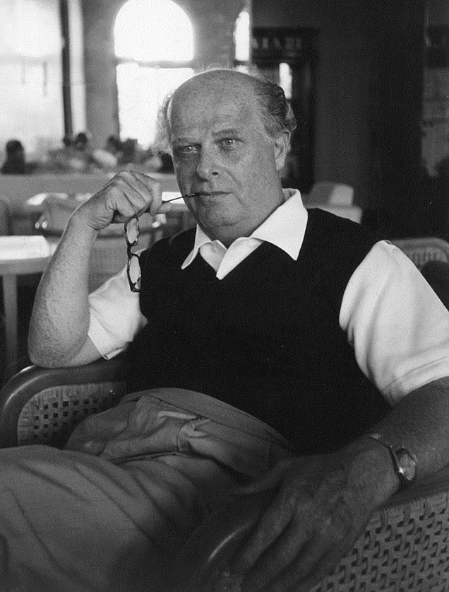 Italian engineer Adriano Olivetti, president of the eponymous typewriter manufacturer sitting at a table in a bar. Venice, 1957